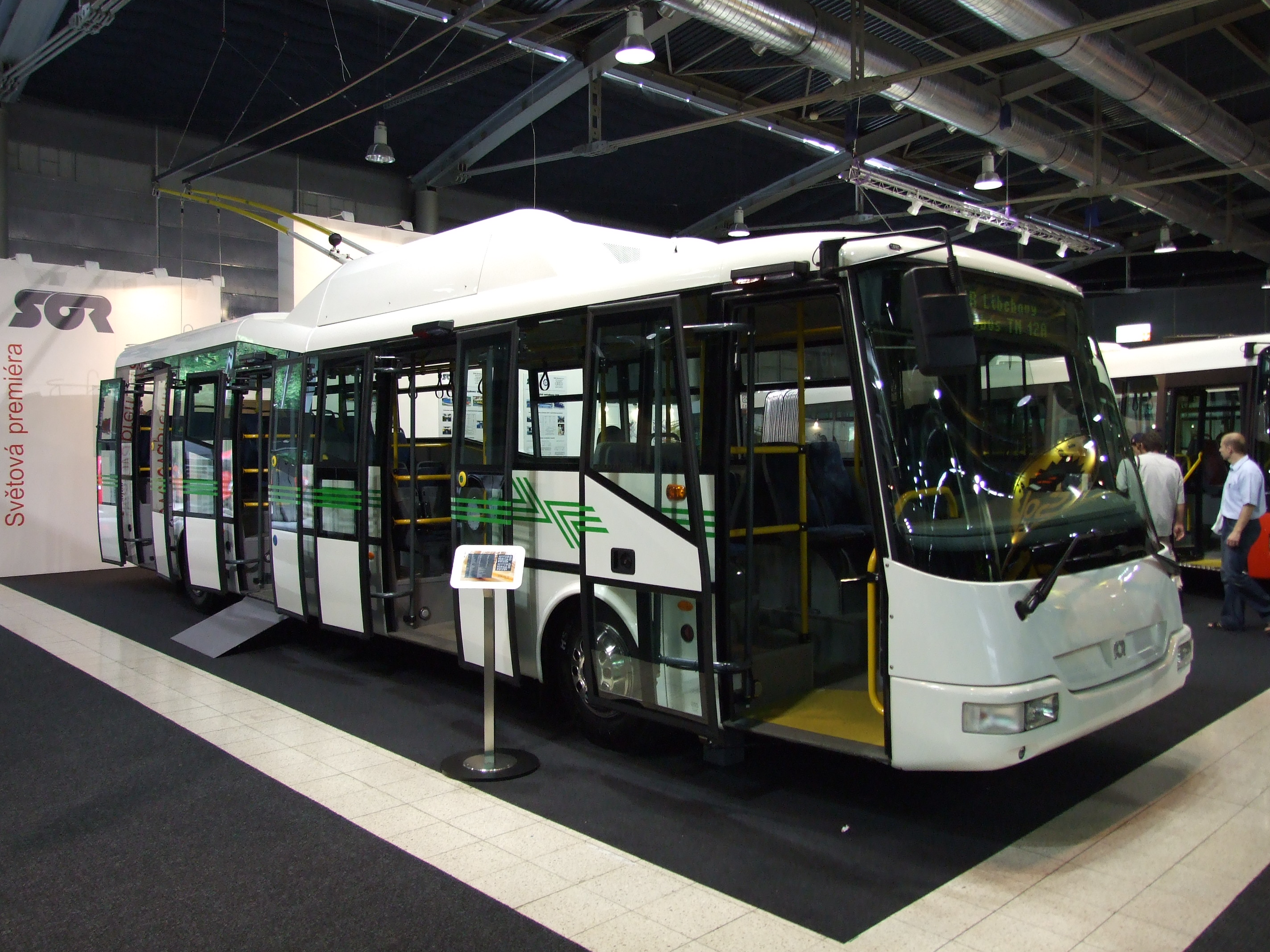 SOR TN 12 trolleybus at Brno 2008 Autotec fairhelp